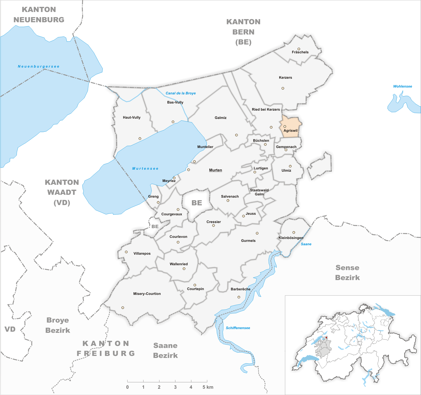 Municipality Agriswil Artist: Tschubby